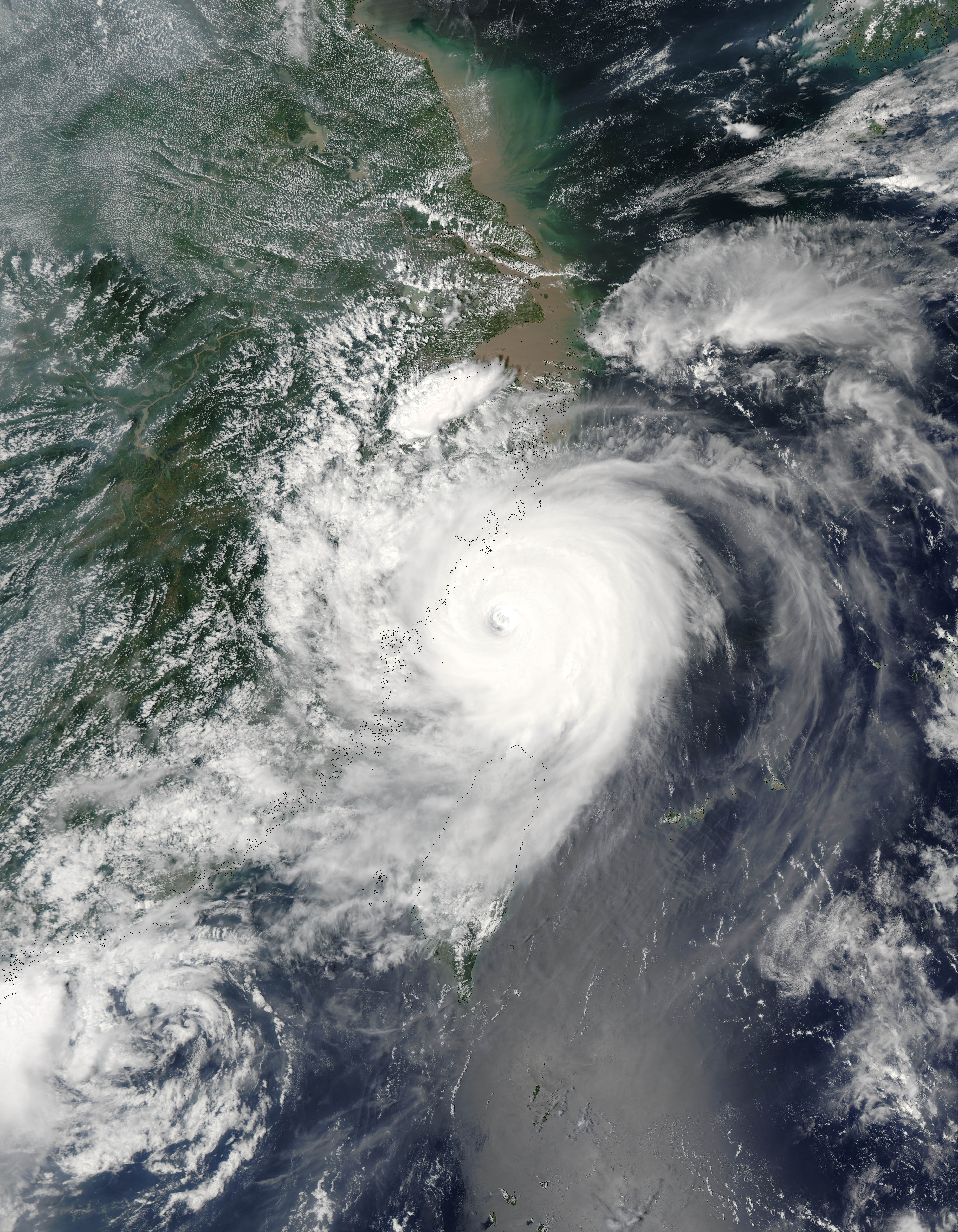 Typhoon Saomai formed in the western Pacific on August 4, 2006, as a tropical depression. Within a day, it had become organized enough to be classified as a tropical storm and earn a name: Saomai, which is the Vietnamese name for the planet Venus. The storm continued to gather strength, becoming a typhoon on August 6. As of August 10, it was poised to strike mainland China as a Category 4 super typhoon, making it the eighth storm to come ashore in China in 2006, according to the Xinhua News Agency. This photo-like image was acquired by the Moderate Resolution Imaging Spectroradiometer (MODIS) on the Aqua satellite on August 10, 2006, at 1:05 p.m. local time (05:05 UTC). Typhoon Saomai possessed a well-defined, closed (cloud-filled) eye at the center of the storm, with tightly wound spiral arms. Thunderstorm systems particularly close to the eyewall were sending up tall cloud towers, which cast shadows onto the surrounding lower clouds (see large, full-resolution image). Around the time MODIS captured this image, Typhoon Saomai had sustained winds of around 240 kilometers per hour (150 miles per hour), according to the University of Hawaii’s Tropical Storm Information Center. The high-resolution image provided above is provided at the full MODIS spatial resolution (level of detail) of 250 meters per pixel. The MODIS Rapid Response System provides this image at additional resolutions.